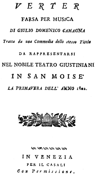 Vincenzo Pucitta - Verter - titlepage of the libretto, Venice 1802